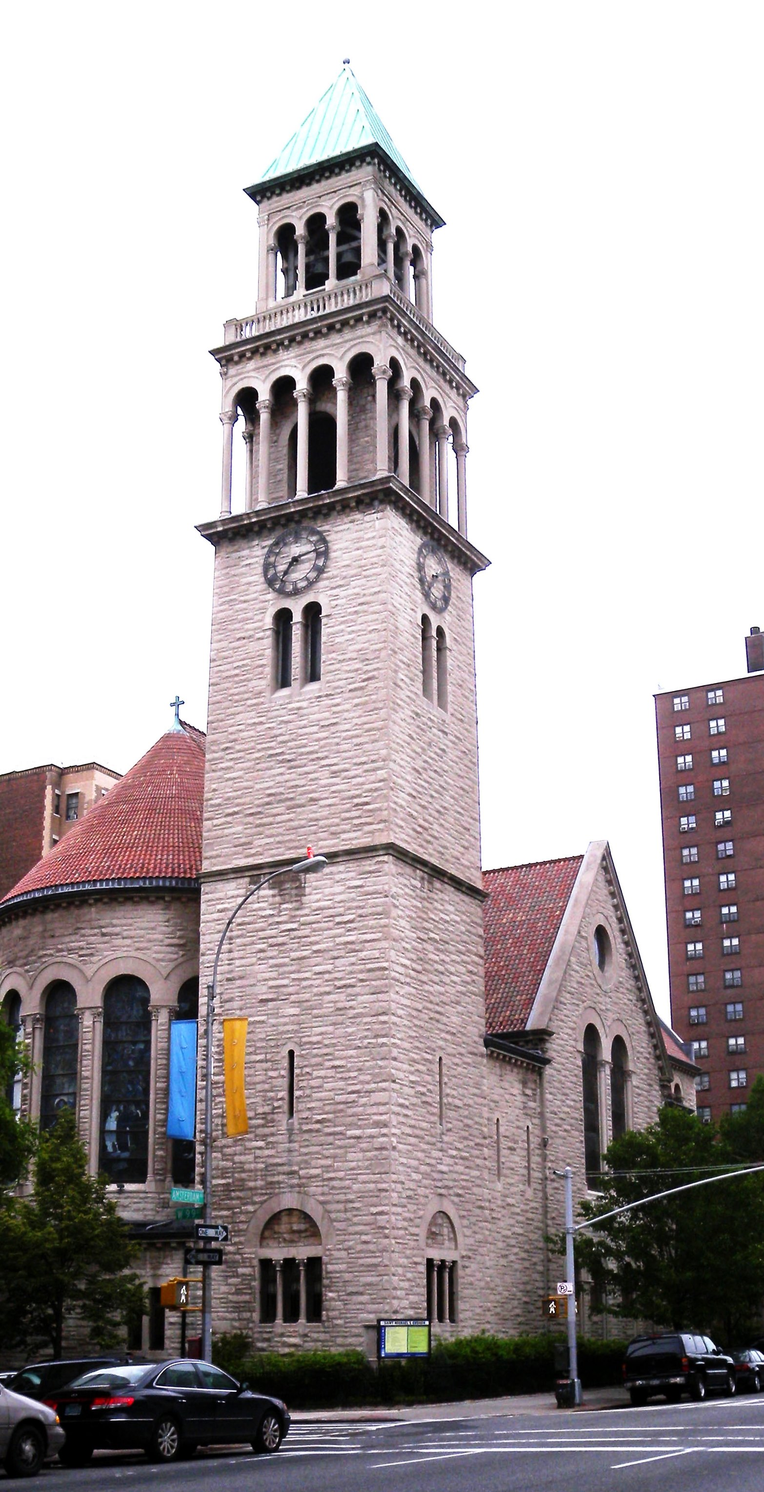 Looking north across Amsterdam Avenue and 99th Street at Episcopal Church of St Michael on a cloudy late afternoon.